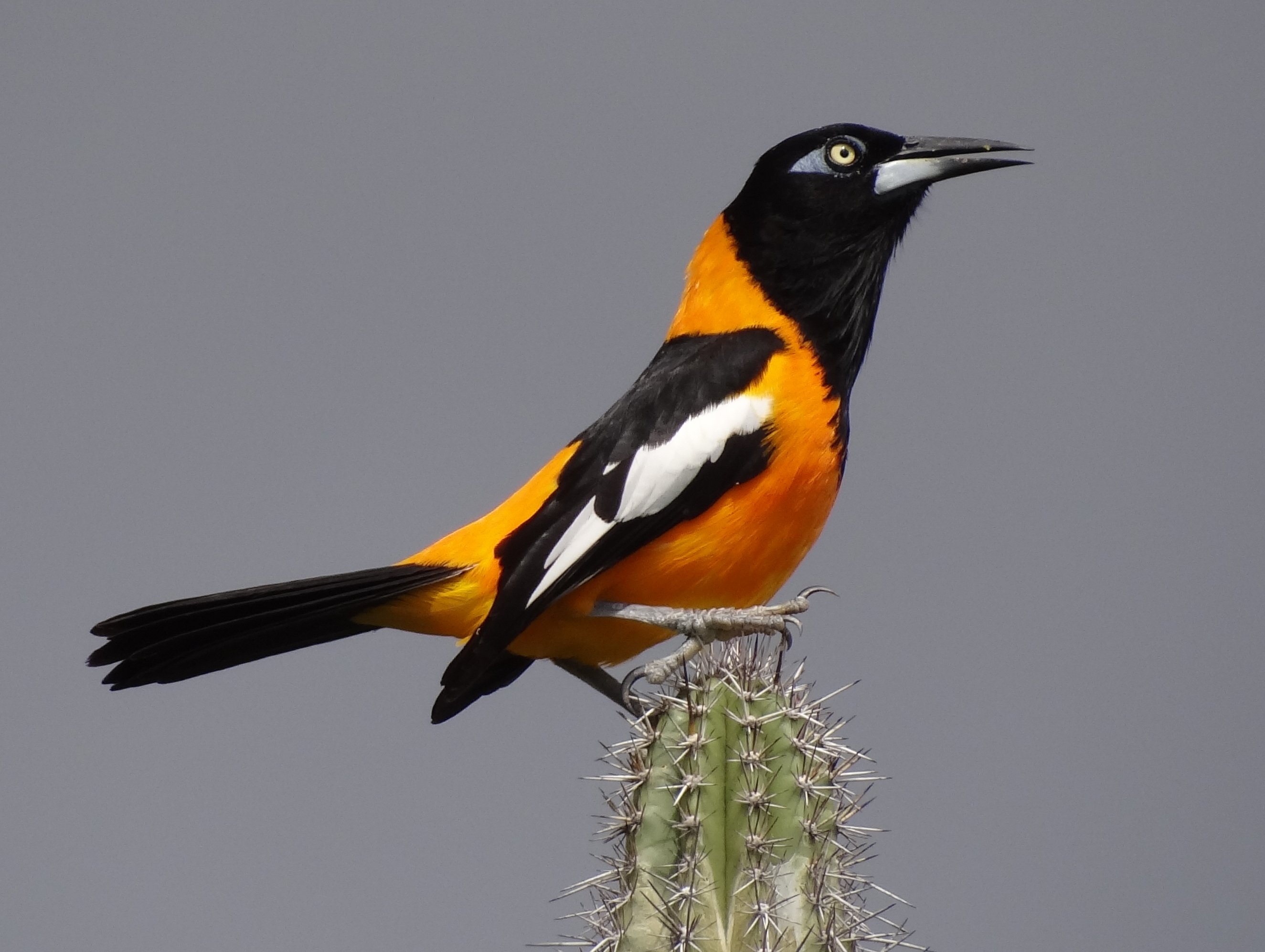 A Venezuelan Troupial (Icterus icterus) photographed on the west coast of Curacao.